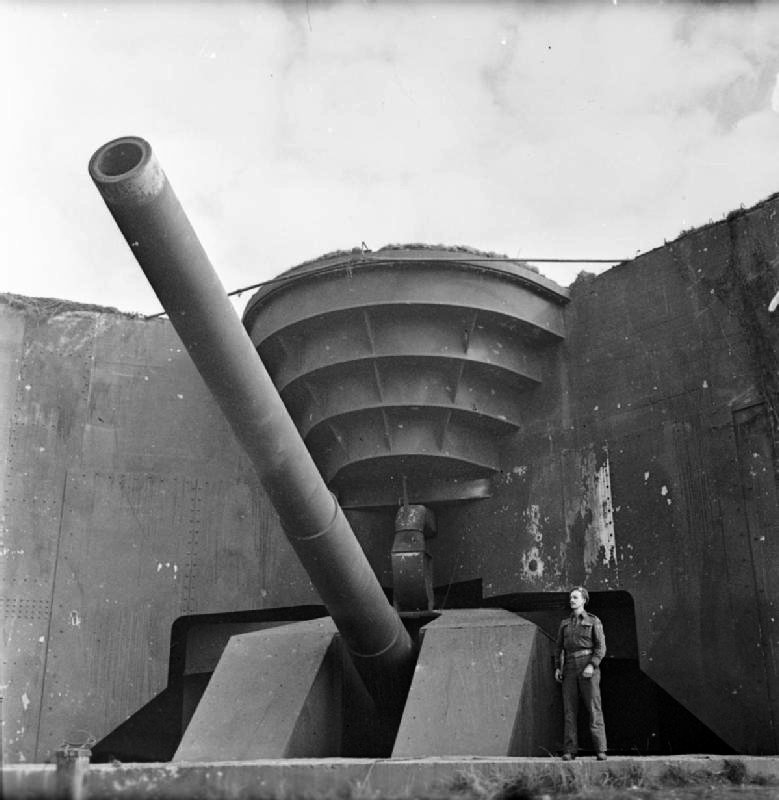 The British Army in North-west Europe 1944-45 A soldier poses next to one of the German coastal guns captured by the Canadians at Cap Gris Nez, 1 October 1944.